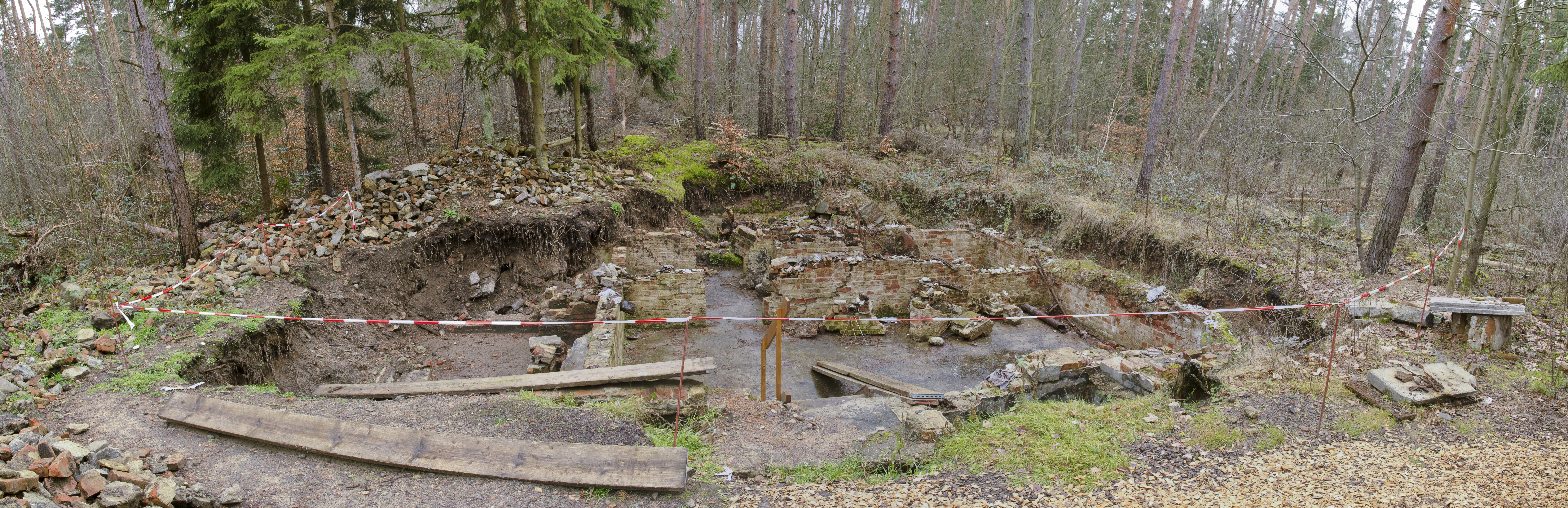 Remains of the former cellar of the kitchen barrack - labour camp Walldorf / Frankfurt Airport - Outpost of the concentration camp Natzweiler-Struthof. In use from August until December 1944. Up to 1700 Hungarien jewish women were detained in the camp for forced labour on a runway construction site of the company Züblin at the Frankfurt Airport. About 50 women didn't survive this time period of 4 months. From the remaining women, only about 300 survived further deportation and the holocaust.